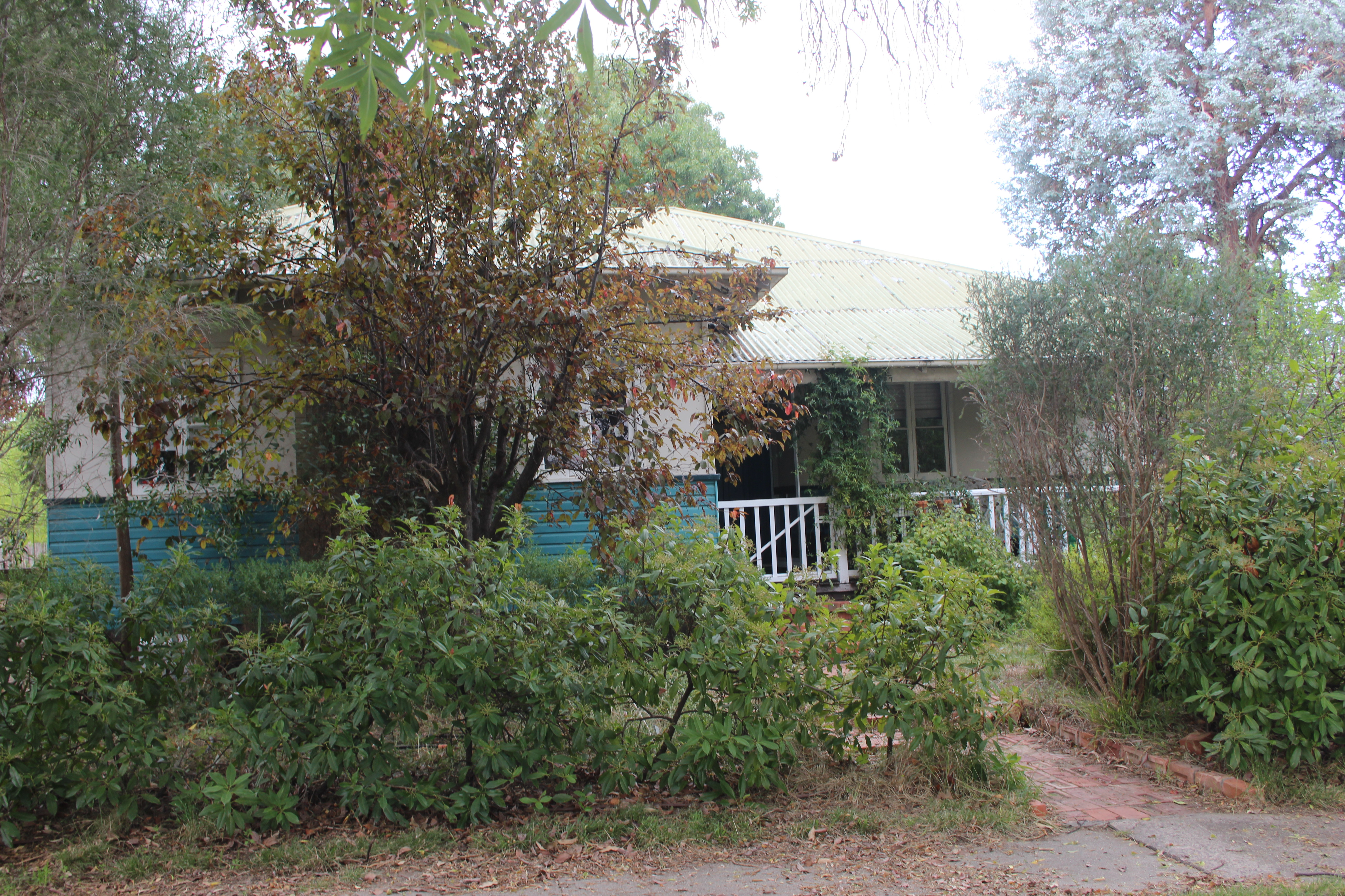 Tocumwal House, Todd Street, O'Connor